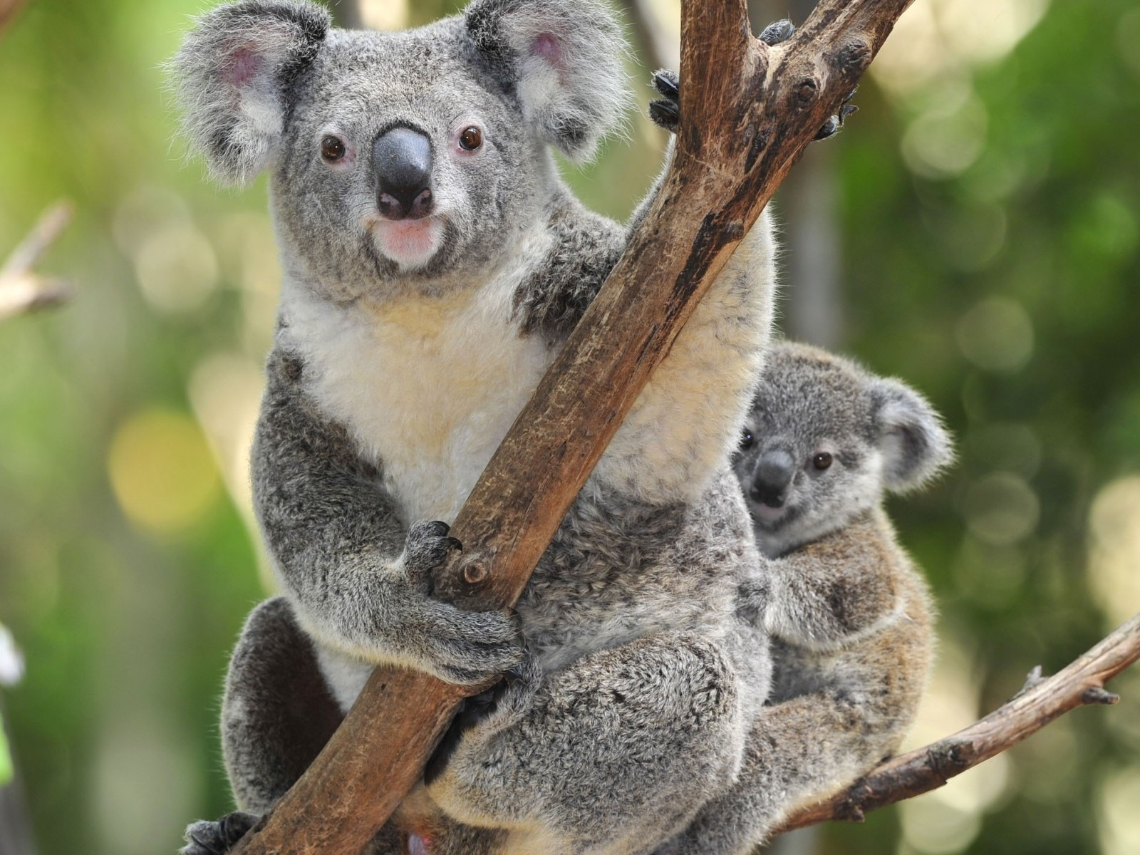 Koalas